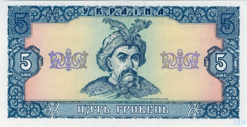 Ukraine 5 Hryvna 1992 front